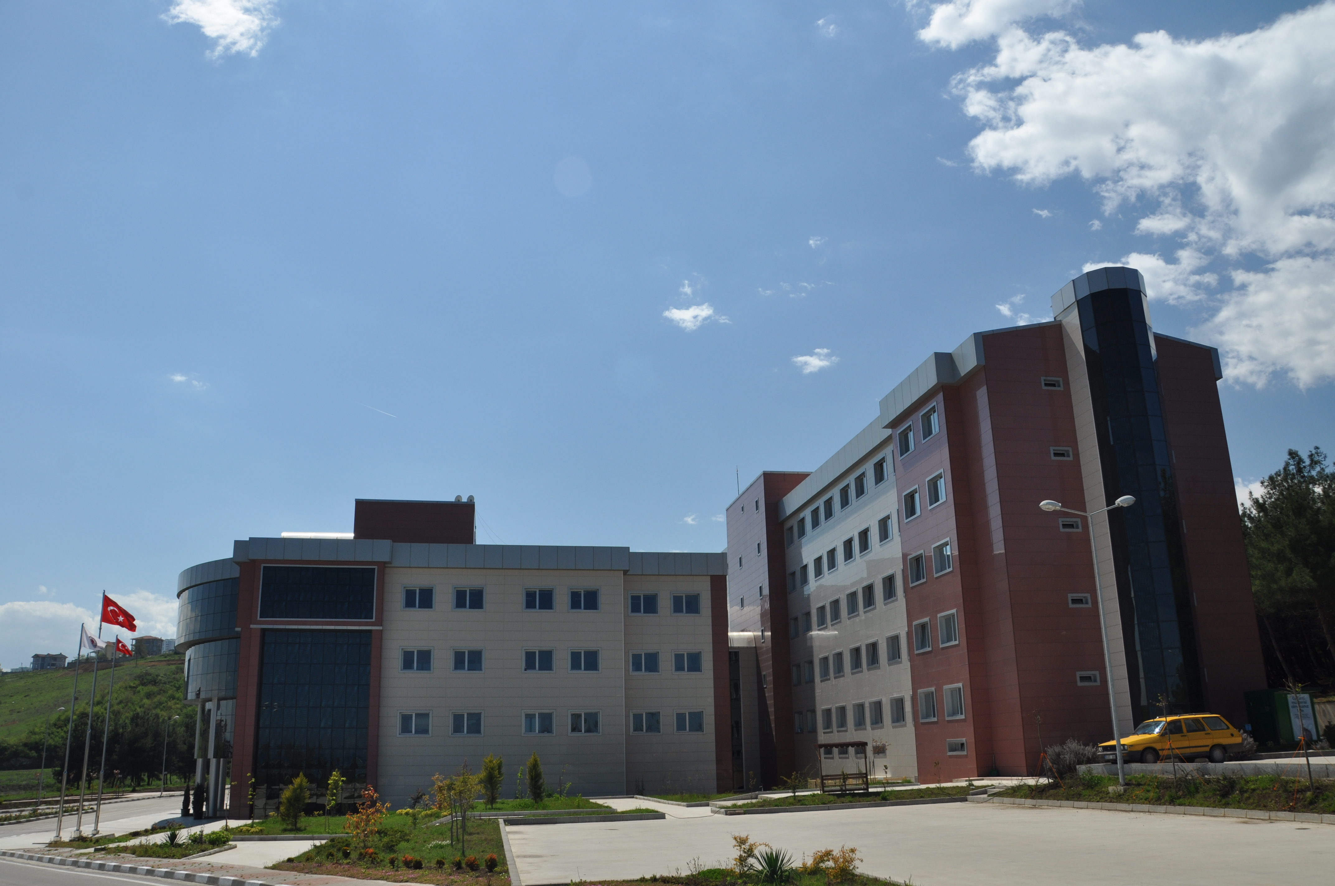 RectorateTürkçe: Rektörlük